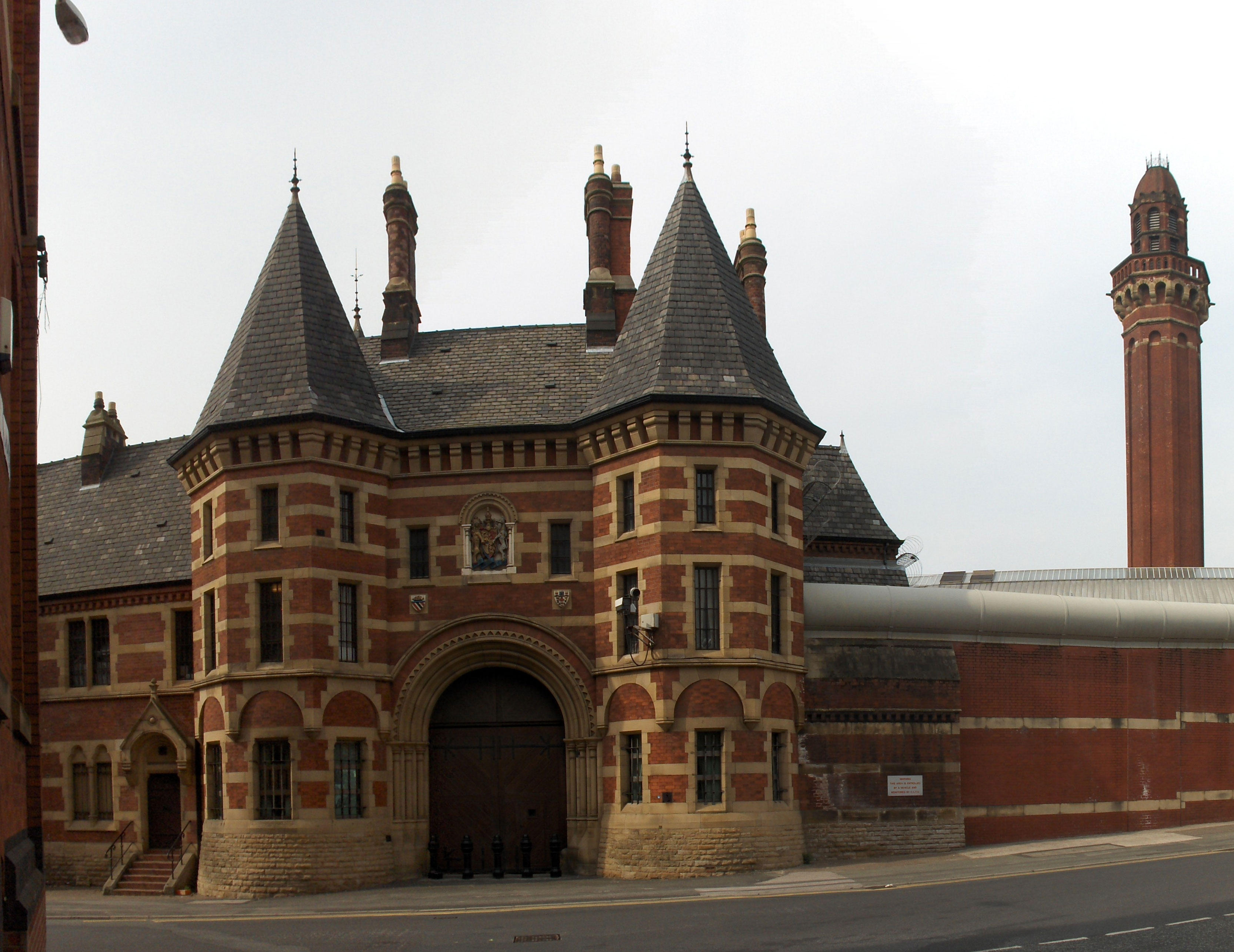 Entrance to HM Prison Manchester (Strangeways)